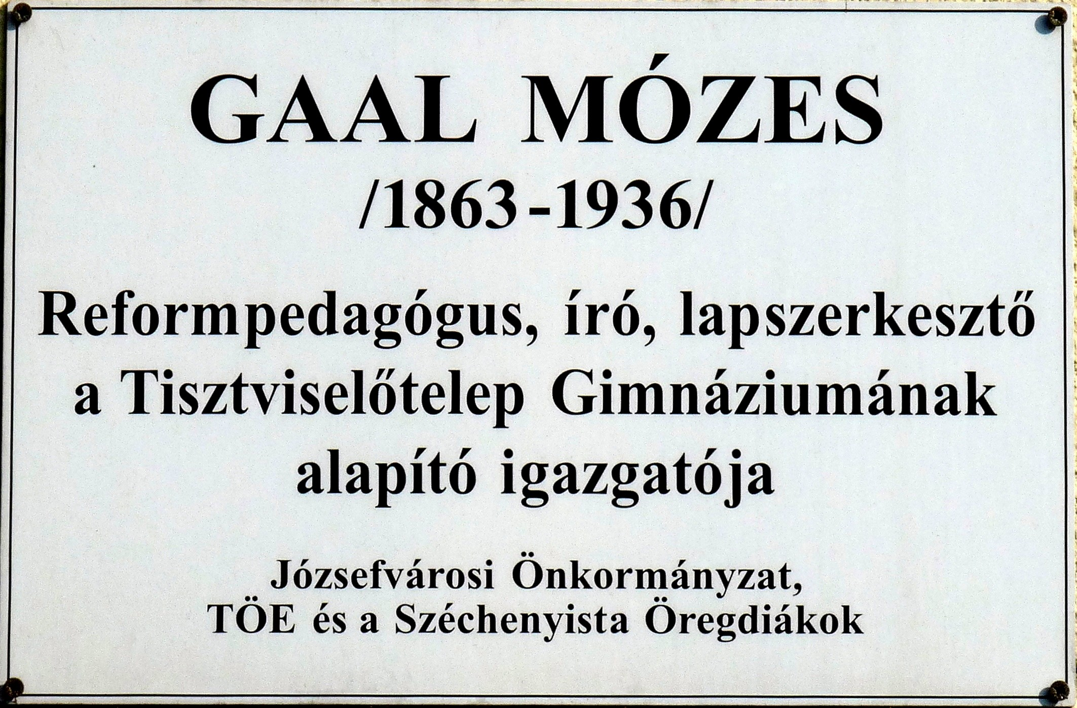 Mózes Gaál (1863–1936) commemorative plaque in Budapest District VIII, Gaál Mózes Street No 1.